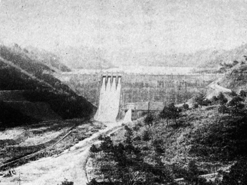 Kuroda Dam old dam.